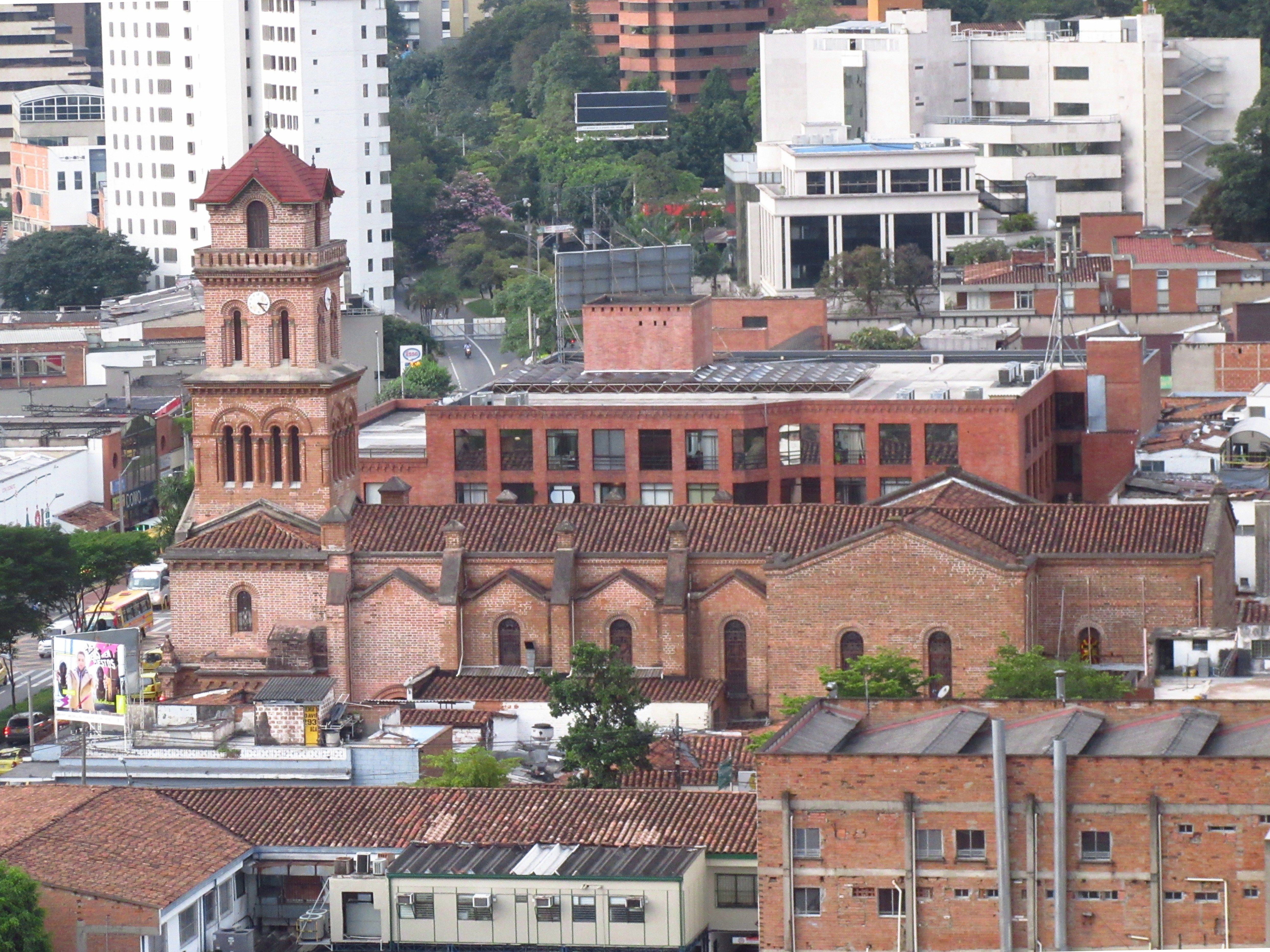 Medellín